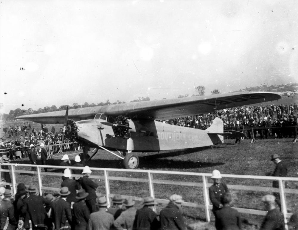 Southern Cross, a Fokker F.VII 3m aeroplane, on display in an enclosure at the airfield, June 1928 Originally registered as G-AUSU, Southern Cross landed in Brisbane after flying across the Pacific from the United States to Australia via Hawaii and Suva. Pilot was Charles Kingsford Smith and the co-pilot was Charles Ulm. (Description supplied with photograph).